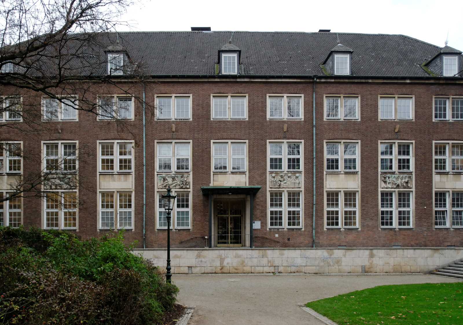 House Marktplatz 6 in Düsseldorf-Altstadt, Germany